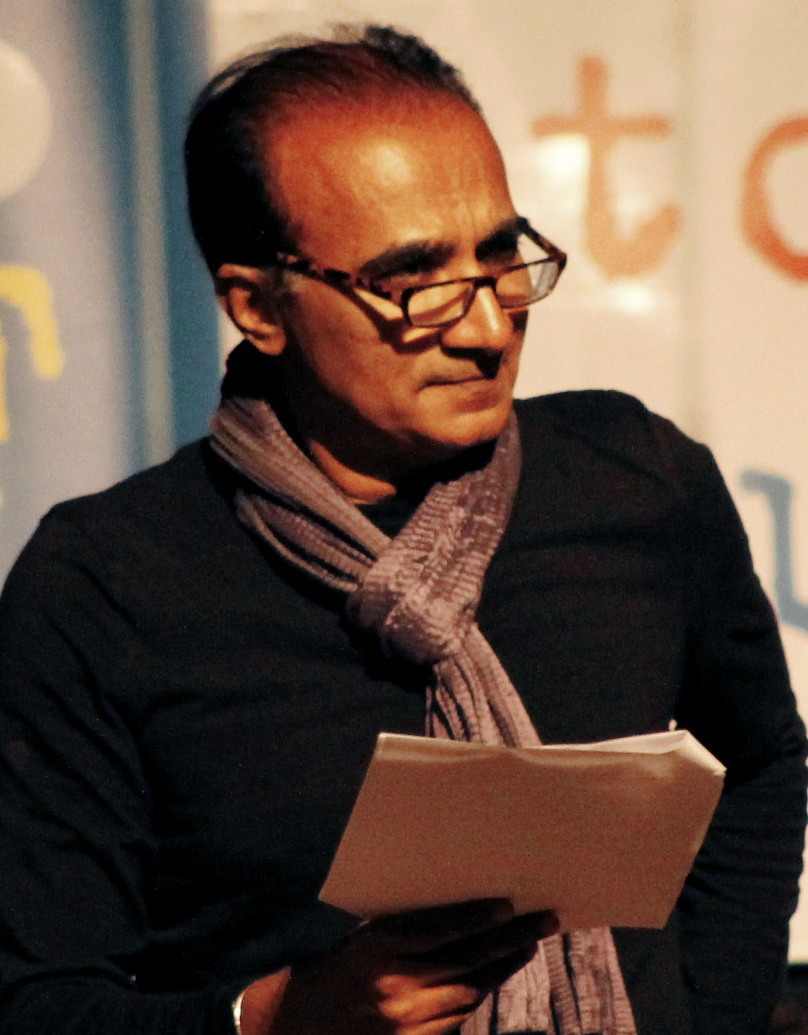 The Biggest Show October 21st, 2012 Culver City, CA